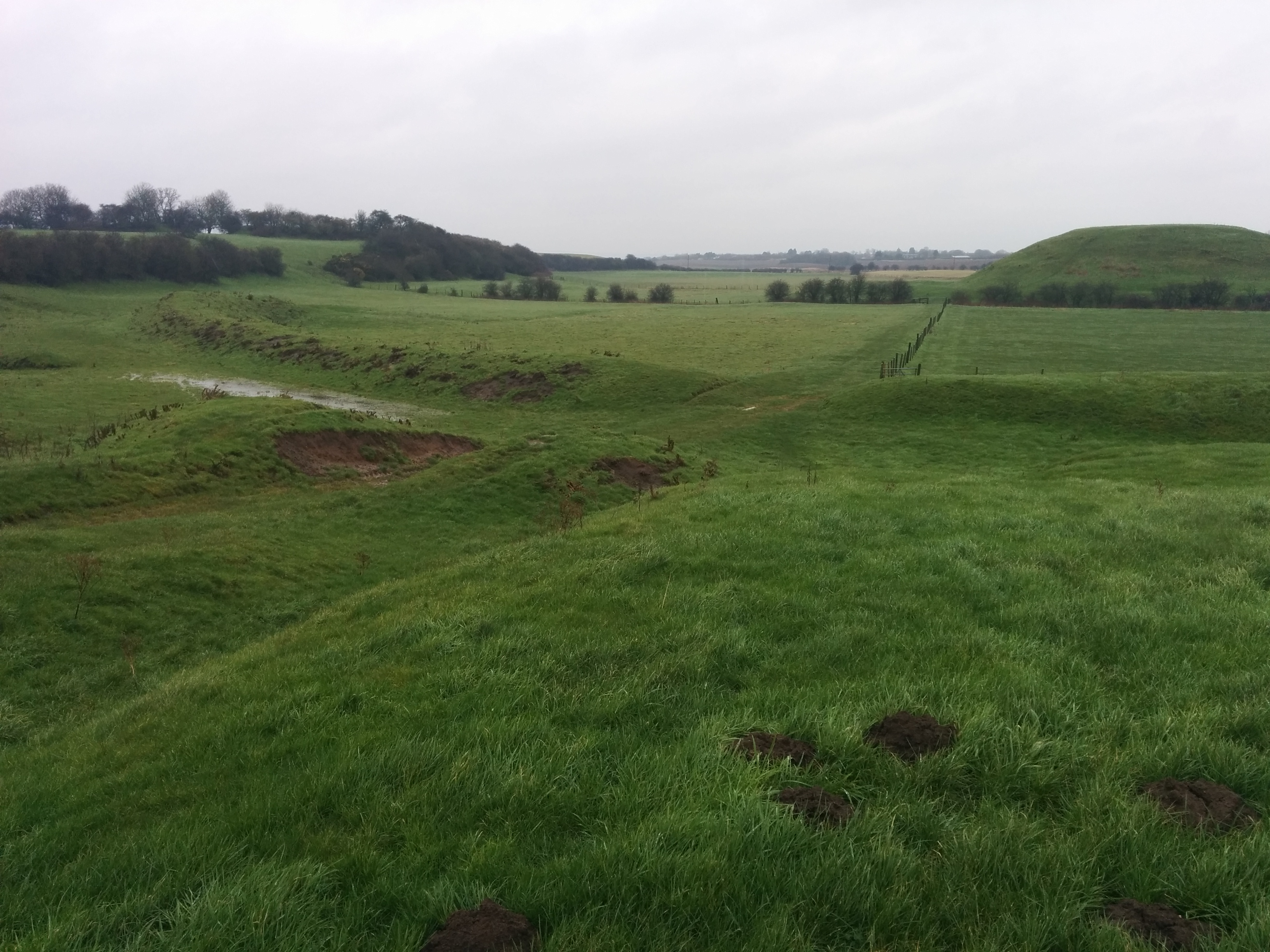 Skipsea castle entrance, Skipsea, East Riding of Yorkshire, England.